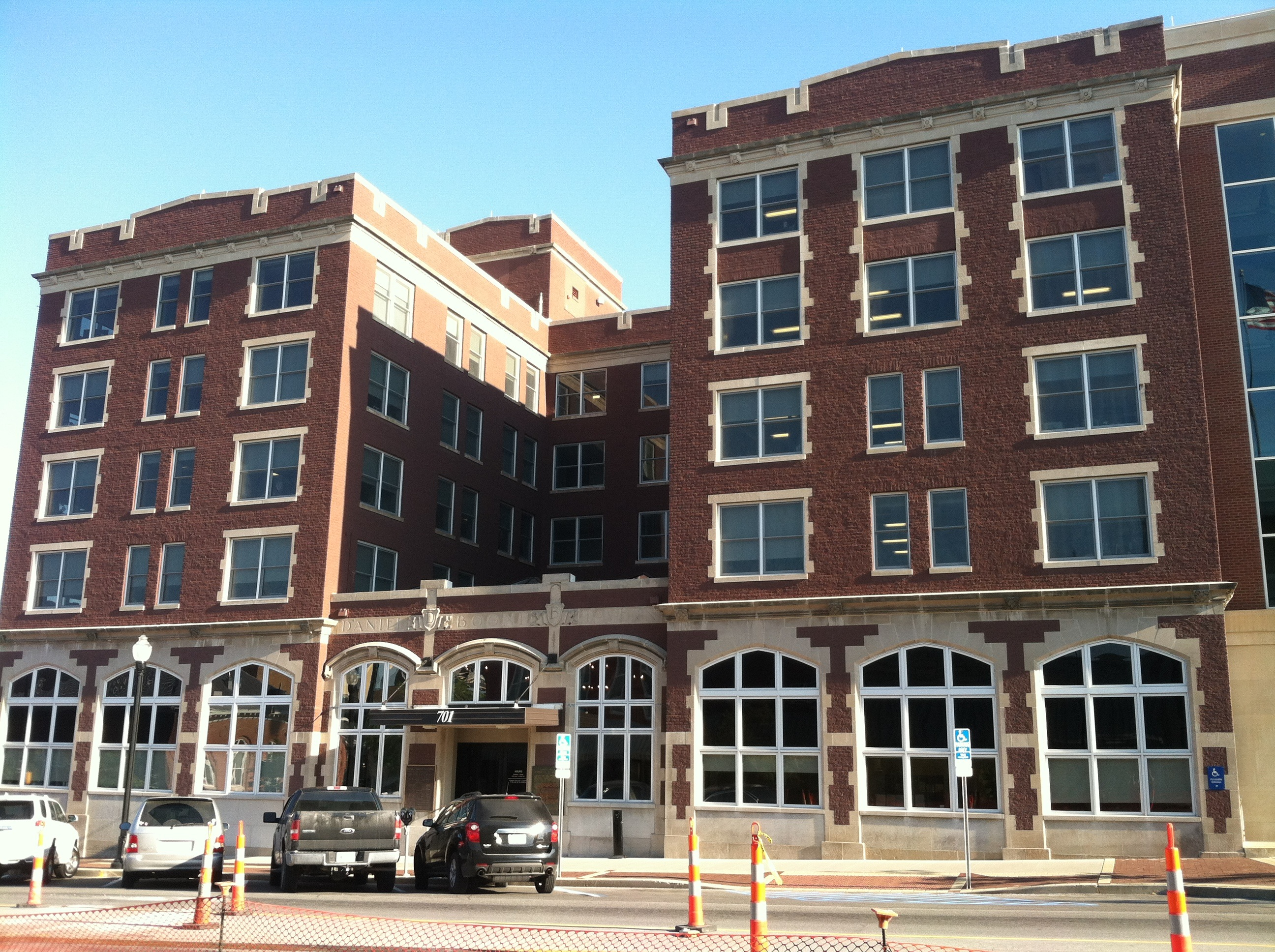 Daniel Boone Tavern, Columbia Missouri city